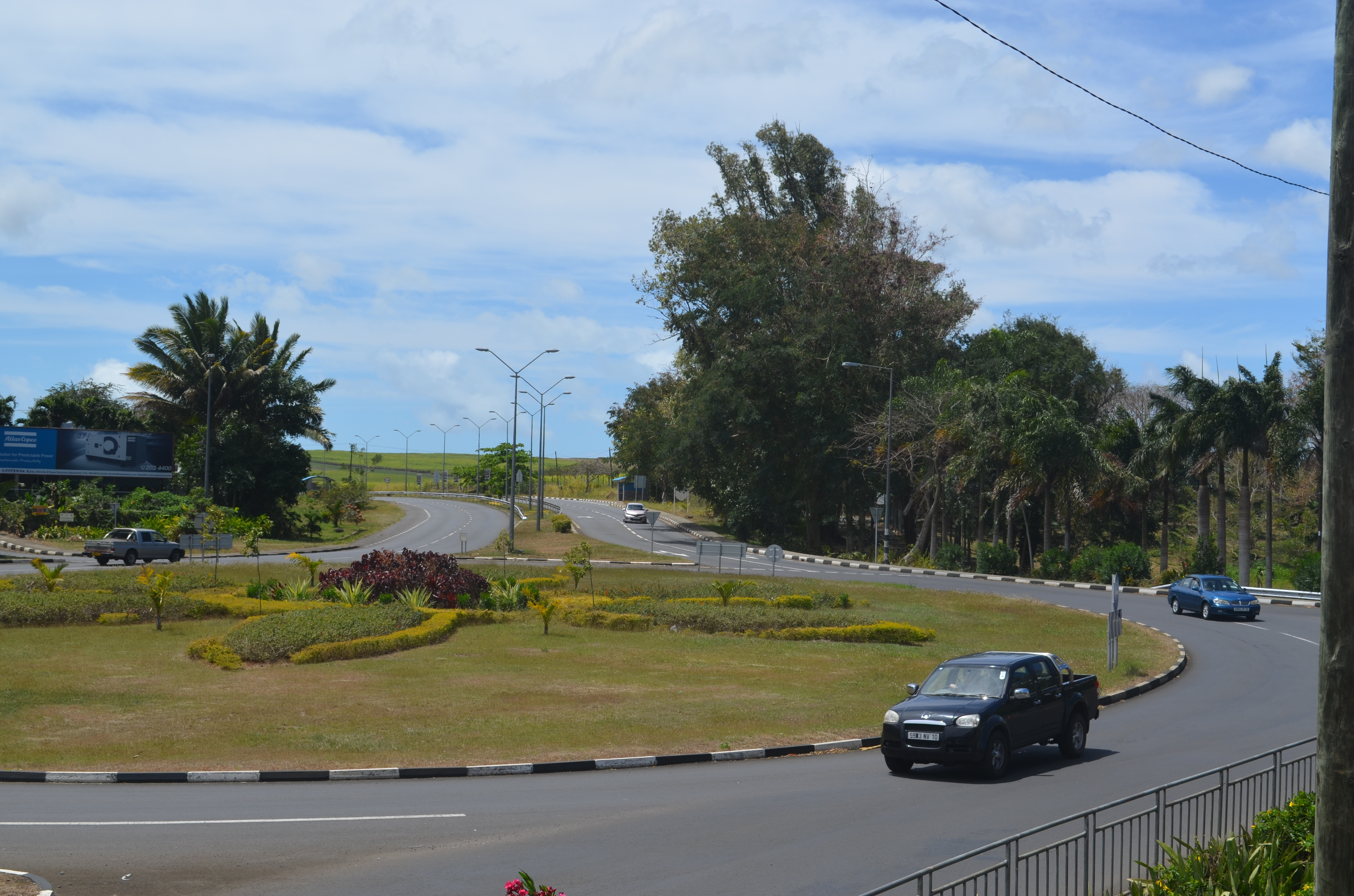 Pamplemousses, freeway M2, roundabout